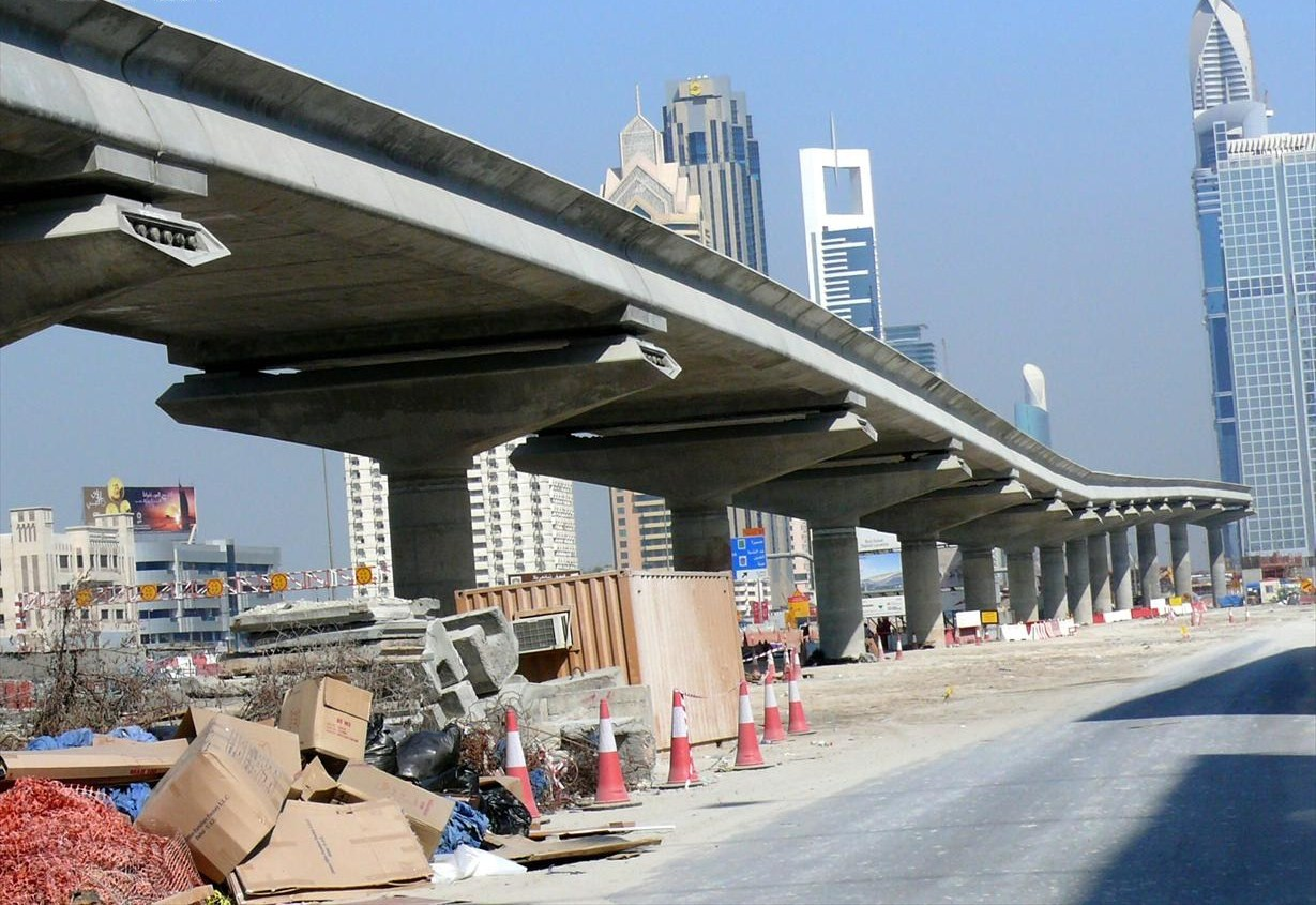 This is a photo of a Dubai Metro Red Line viaduct along Sheikh Zayed Road (close to the Burj Dubai) on 22 November 2007.